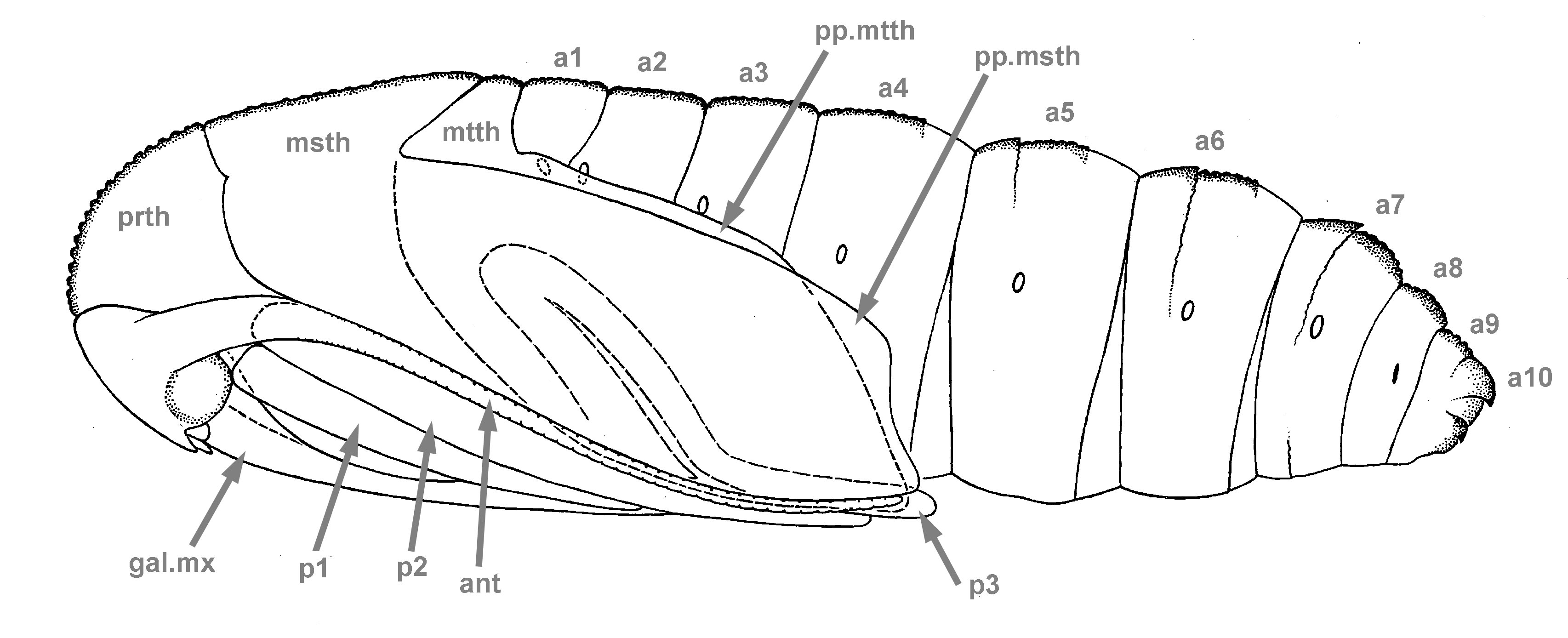 Pupa of moth Galleria mellonella (as example of pupa conglutinata).